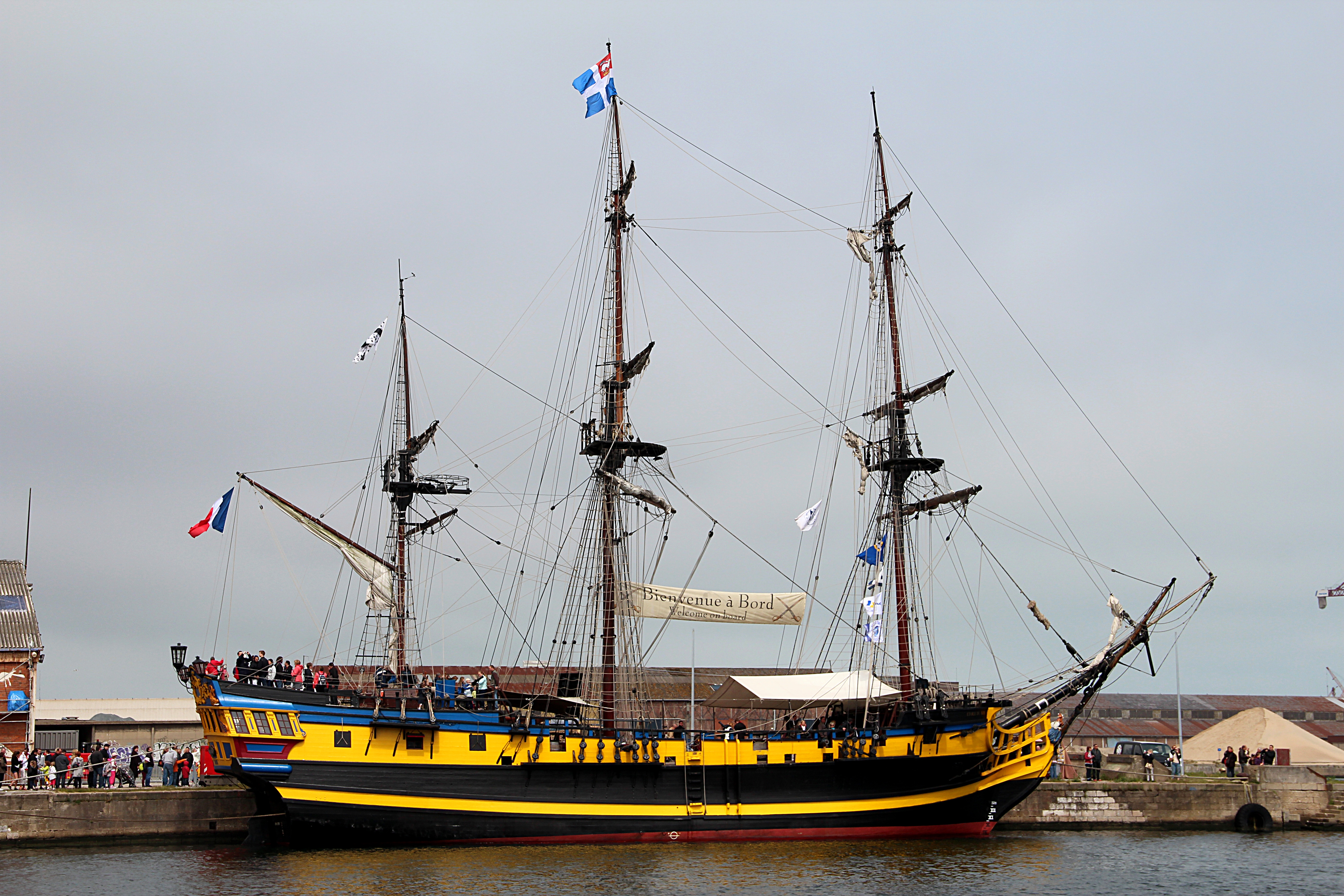 The Étoile du Roy formely Grand Turk, is a full-rigged ship, a close replica of an 18th century British frigate, built in Turkey in 1997 for the purposes of the British television series Hornblower and photographed on June 1, 2013 during the large maritime gathering in Dunkirk.